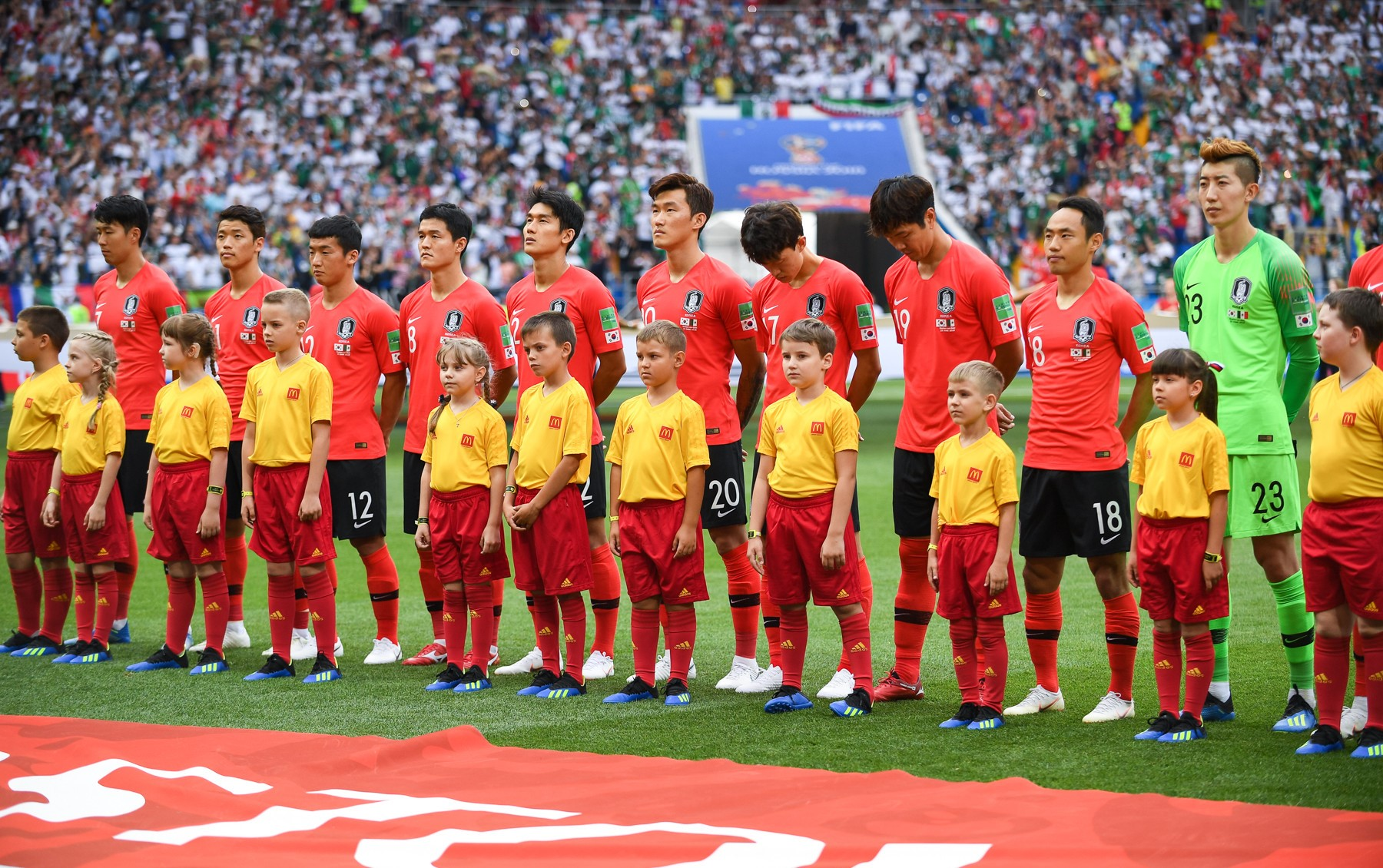 Mexico and South Korea match at the FIFA World Cup 2018-06-23